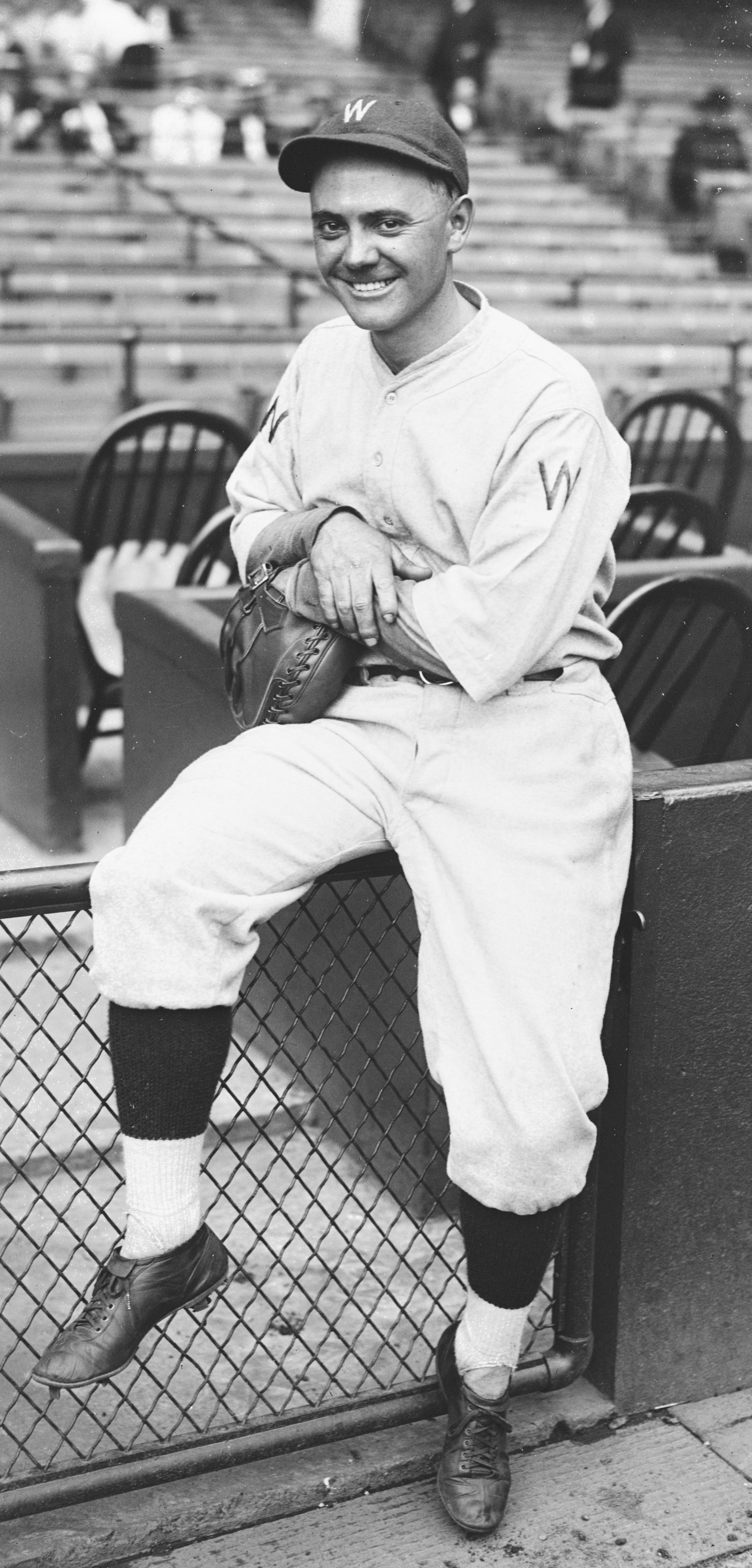 Title: Bennie Tate, Washington AL (baseball) Abstract/medium: 1 negative : glass ; 5 x 7 in. or smaller.